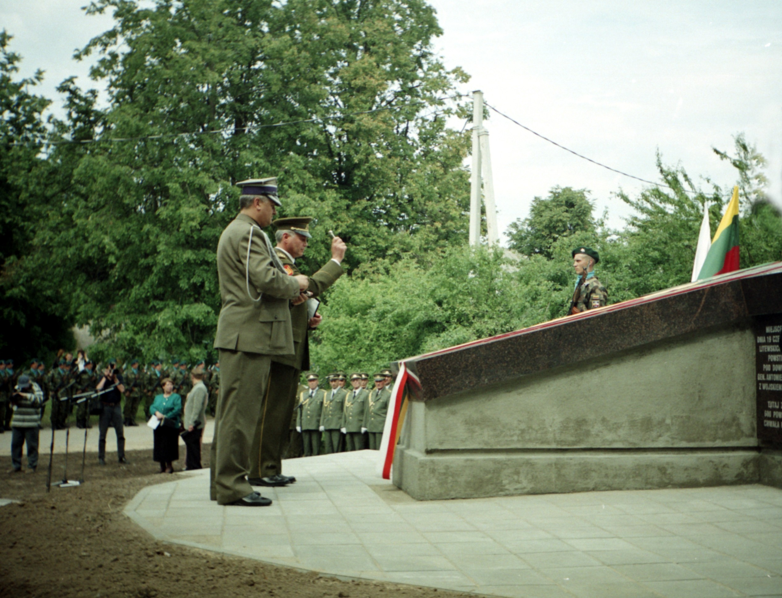 Opening of memorial of battle in Paneriai 1831-06-19 during November uprising, Vilnius, Lithuania